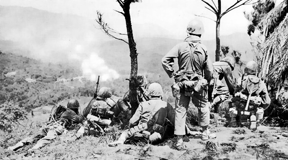 Pushing to Yae-Take, infantrymen of the 6th Marine Division pause on a mountain top while artillery shells a Japanese position.